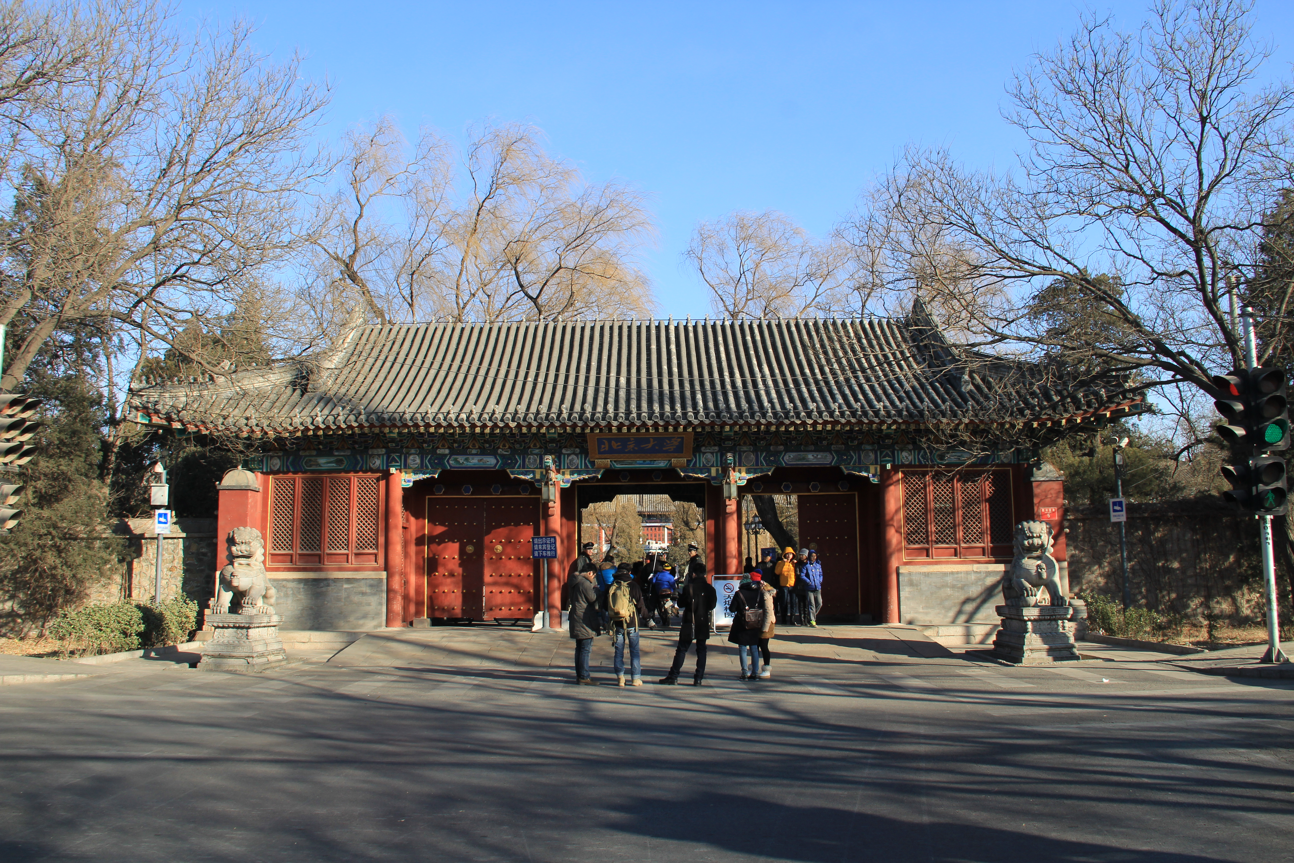 West Gate of Peking University.